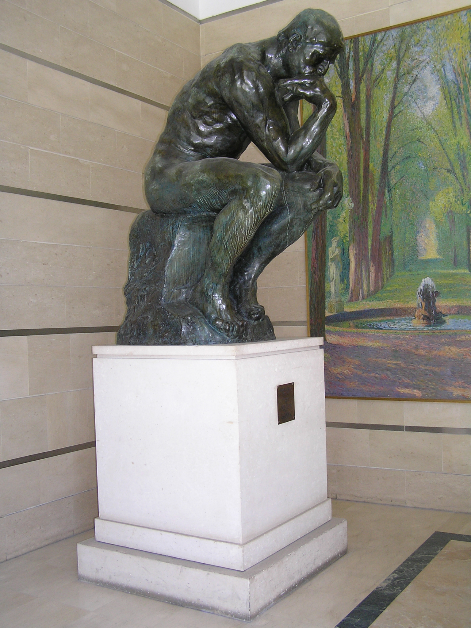 Copy of Rodin's The Thinker in the lobby of RAD Data Communications in Tel Aviv